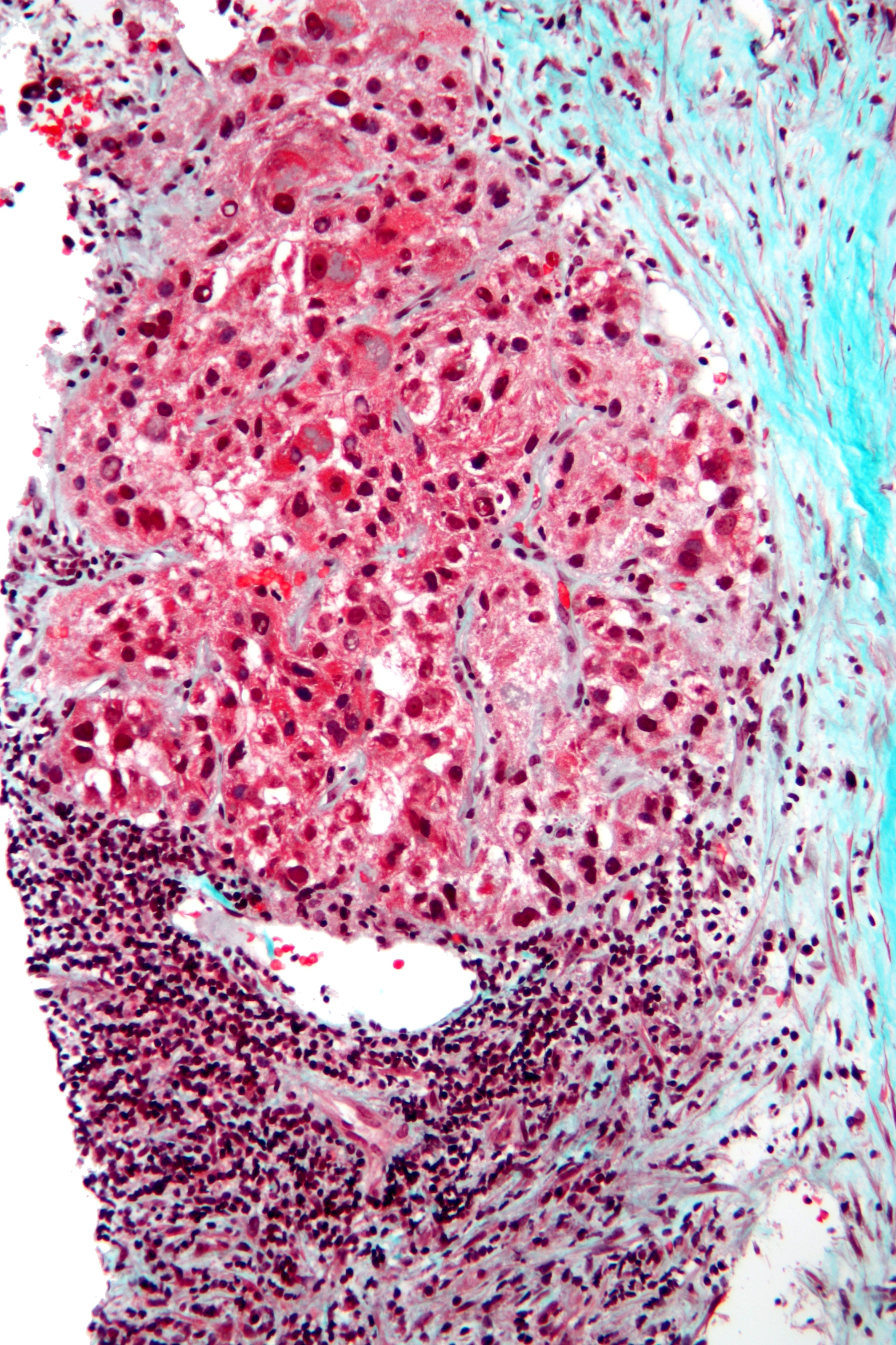 Intermediate magnification micrograph of hepatocellular carcinoma the most common form of primary liver cancer, i.e. the most common form of cancer to arise in the liver. Features on image: End-stage cirrhosis - blue collagen (fibrosis) Mallory bodies. Loss of normal liver architecture. Nuclear atypia. See also Image:Hepatocellular carcinoma low mag.jpg